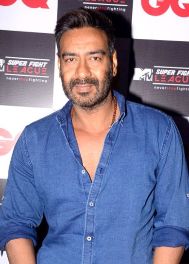 Ajay Devgn at the launch of MTV Super Fight League.